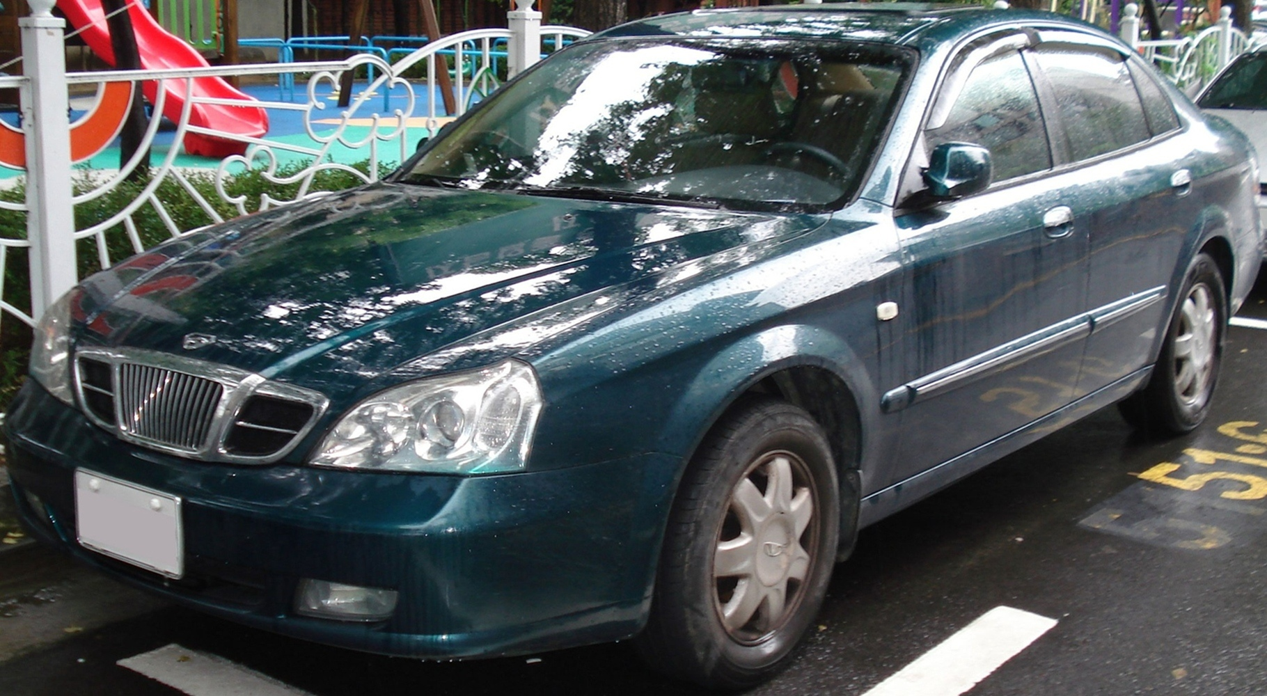 Daewoo Magnus